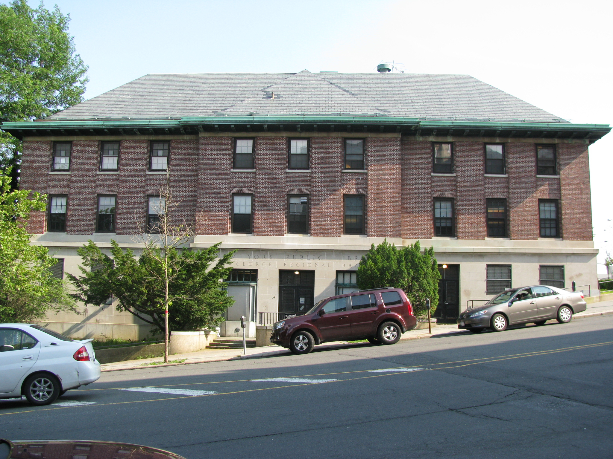 The St. George Library Center of the New York Public Library, funded by Andrew Carnegie.